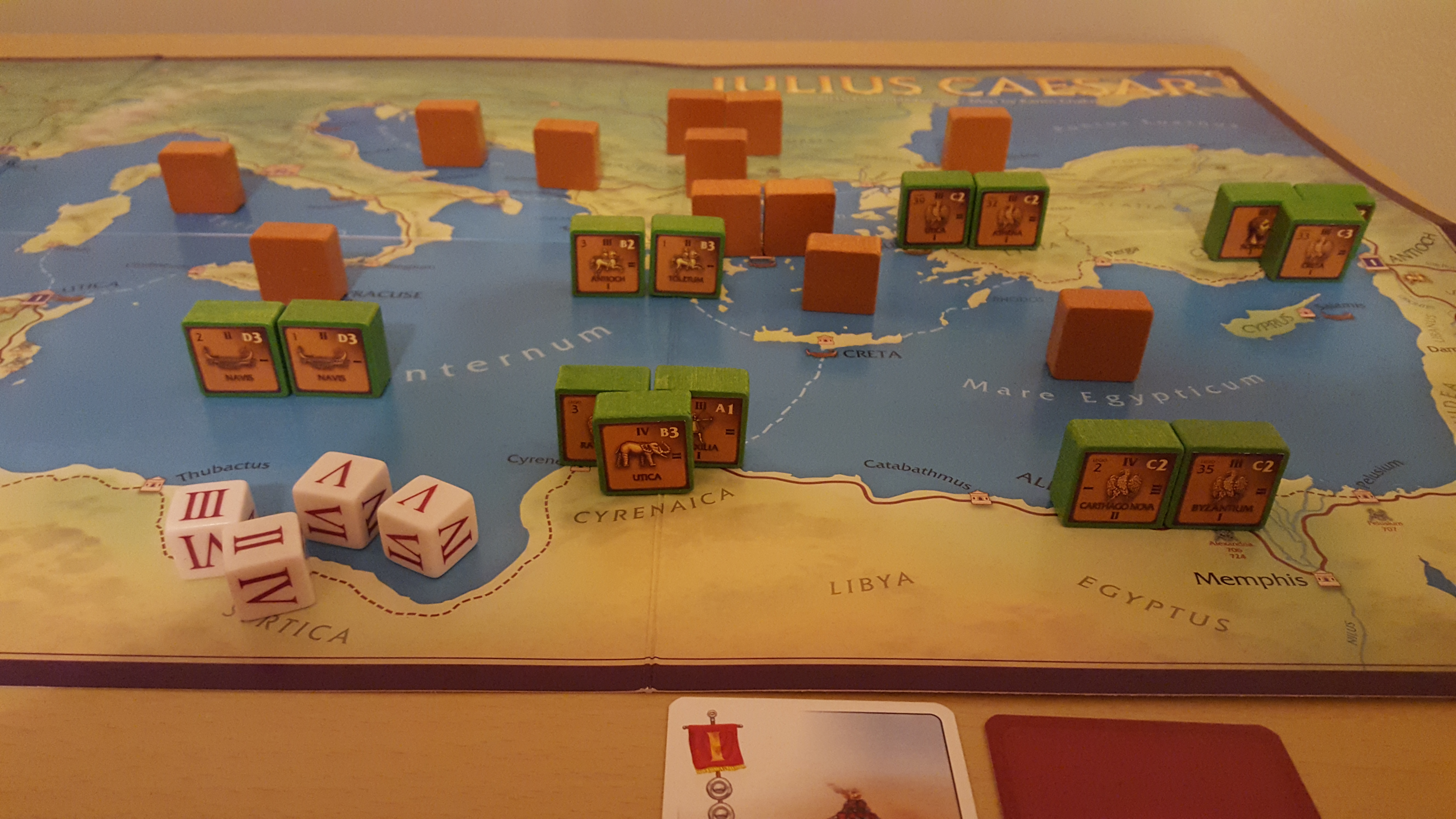 A game of Julius Caesar from Columbia Games which shows how each player can only see his own units, giving the wargame a fog of war feel to it.